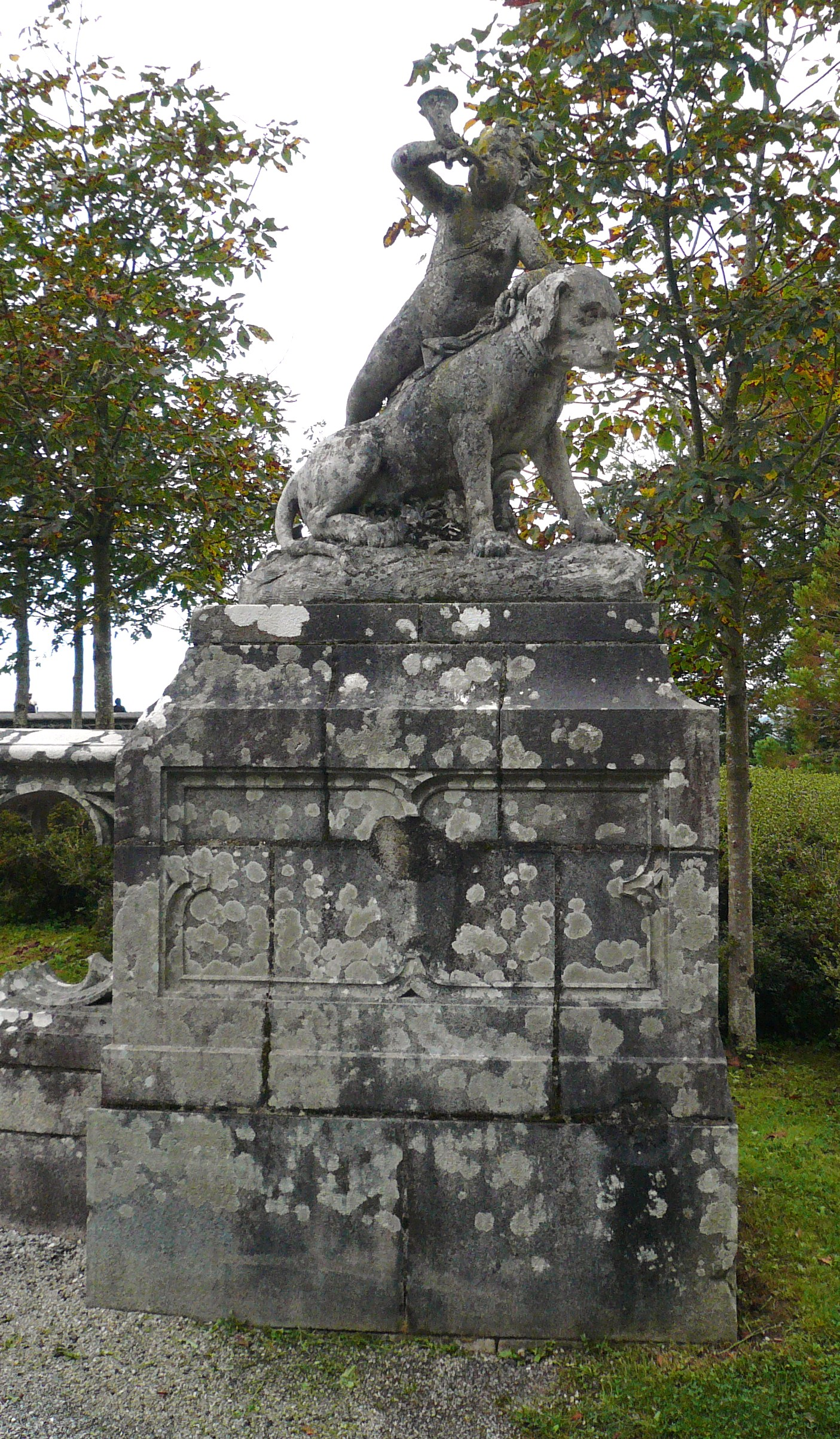 Statue "The call to the hunt" located on the terrace of the castle of Trévarez, Saint-Goazec, Finistère, Brittany, France. .